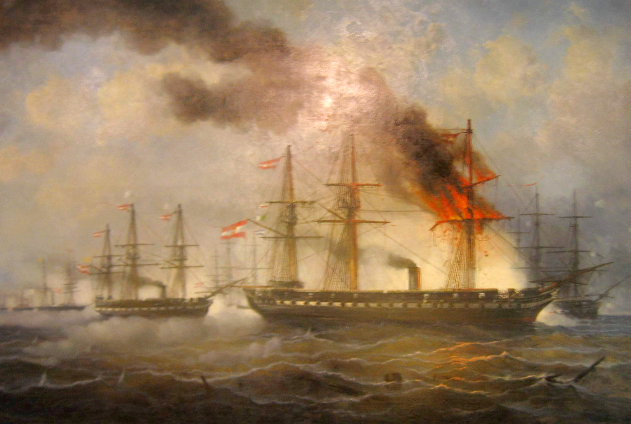 The closest ships are Austrian frigates Schwarzenberg (right) and Radetzky (left).